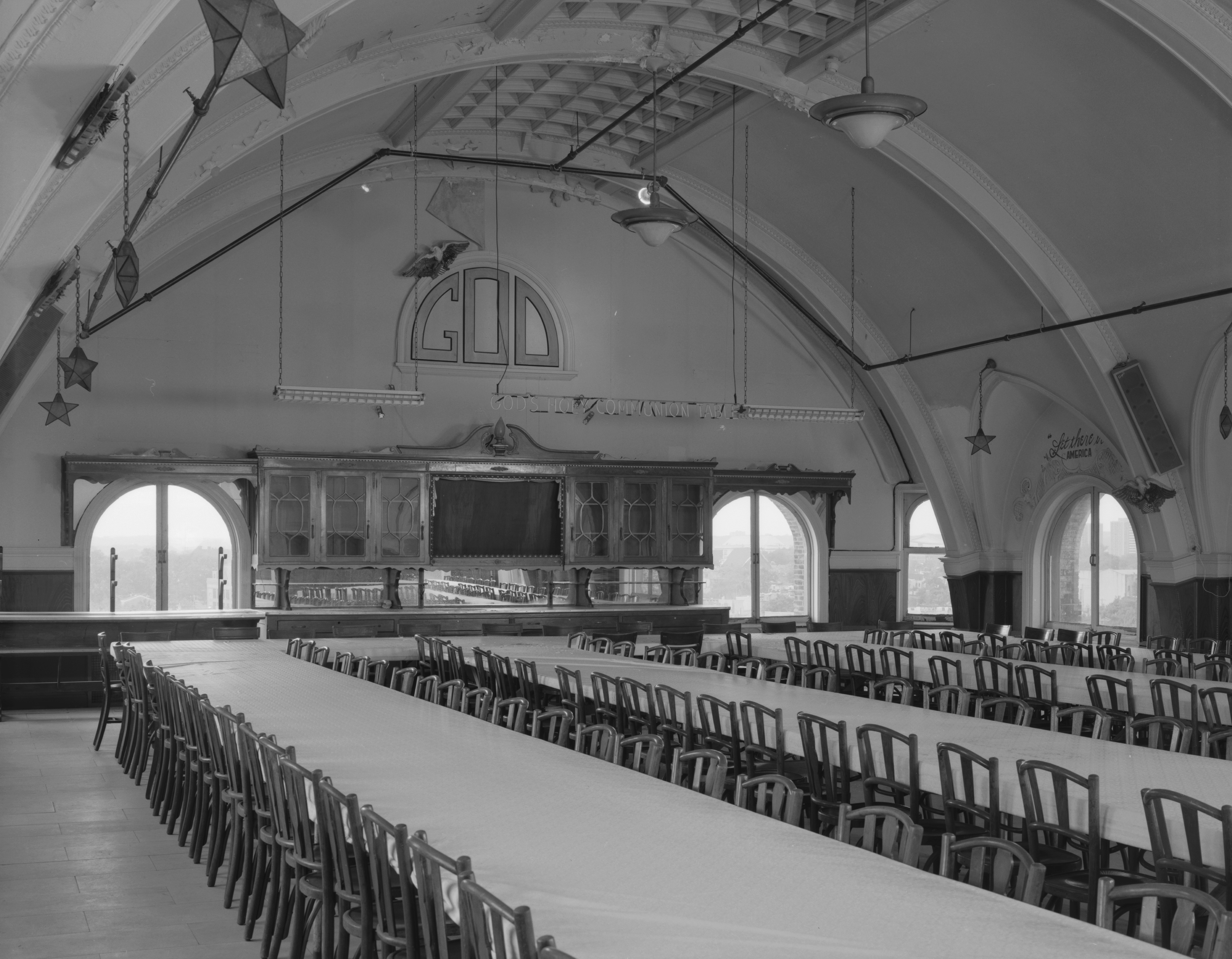 The top floor of the Divine Lorraine Hotel, which was owned by Father Divine or his group. Hotel is on the National Register of Historic Places